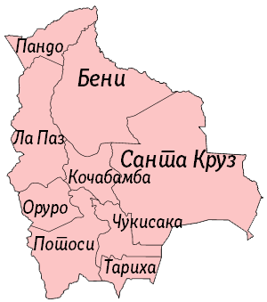 Map of Bolivia's departments on Macedonian.